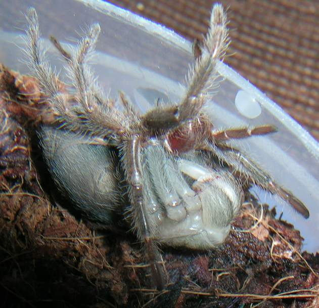 spider moulting process (8 photo)